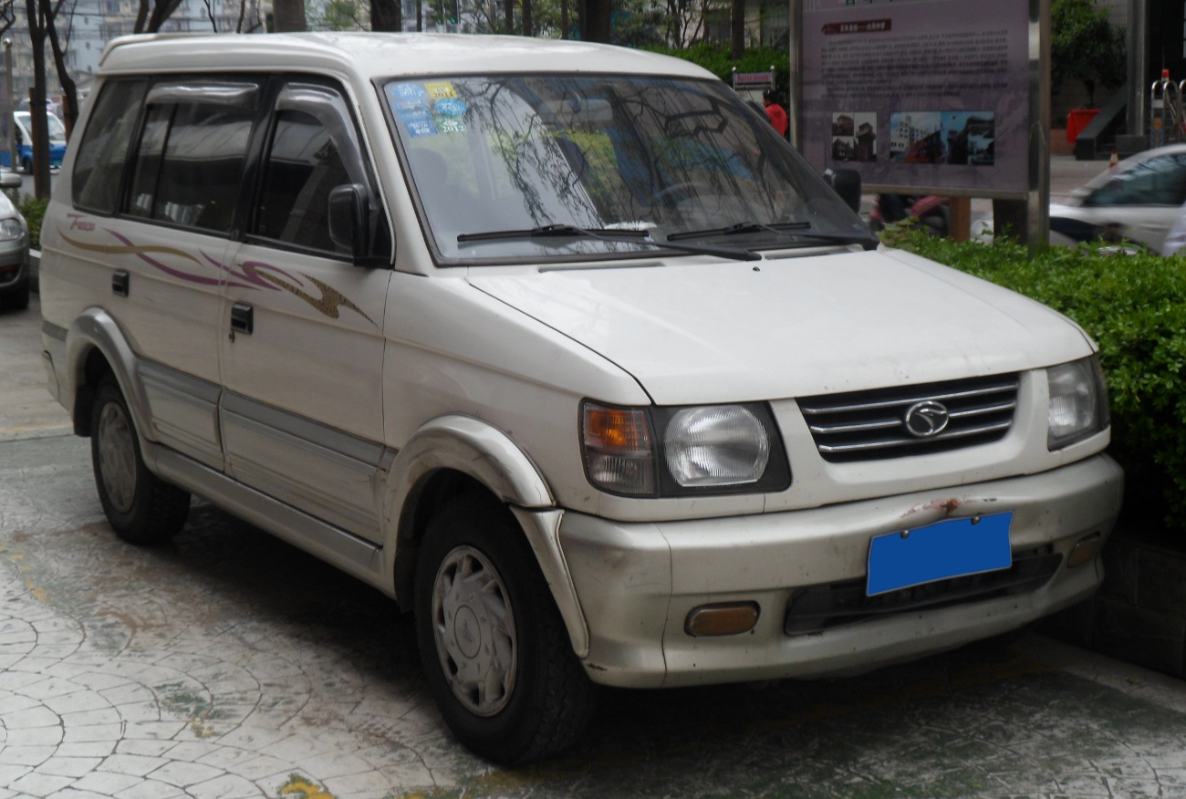 Soueast Freeca photographed in Shanghai, China.